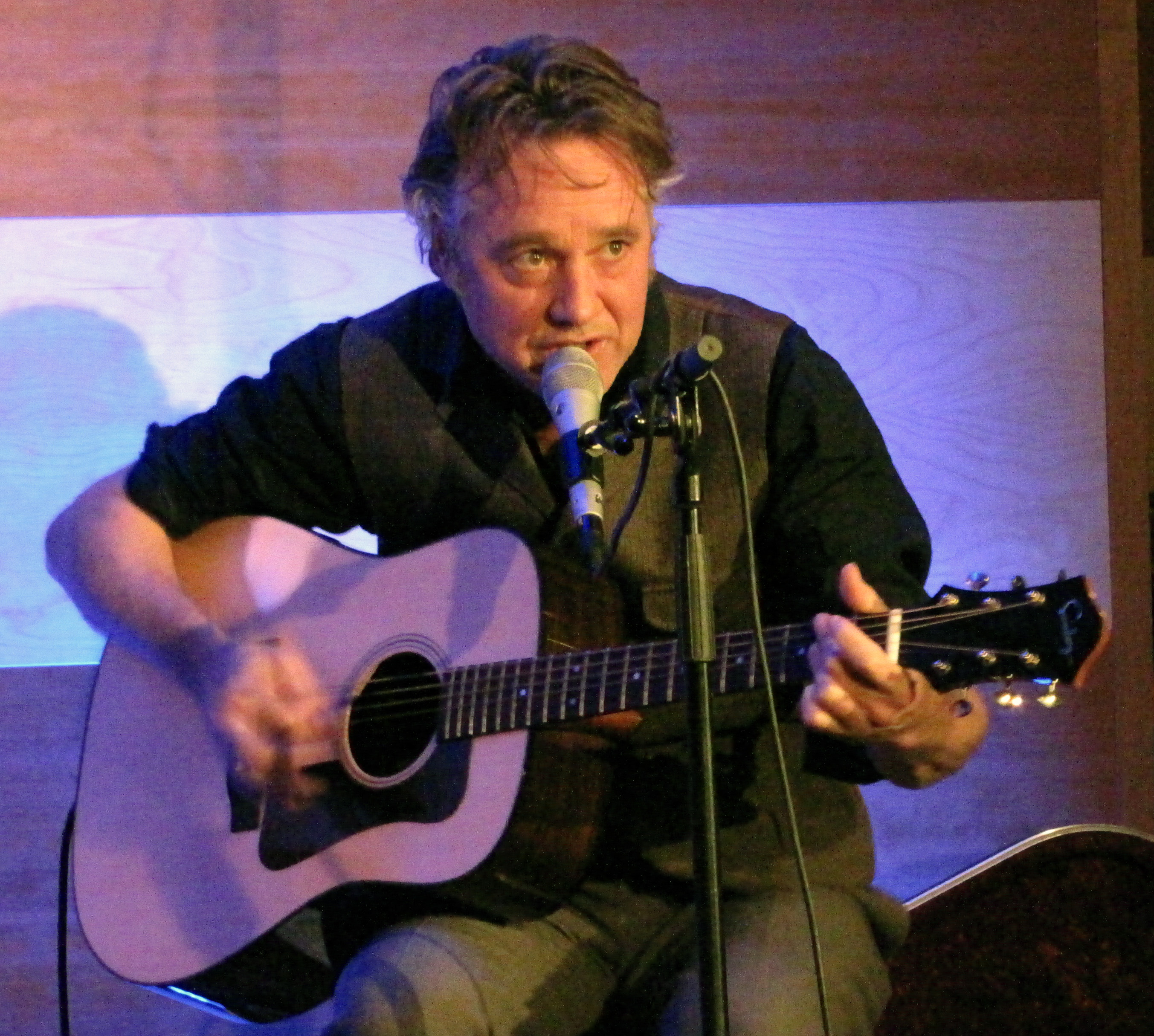 Mark Olson performing at Clarion Hotel, Örebro, Sweden.